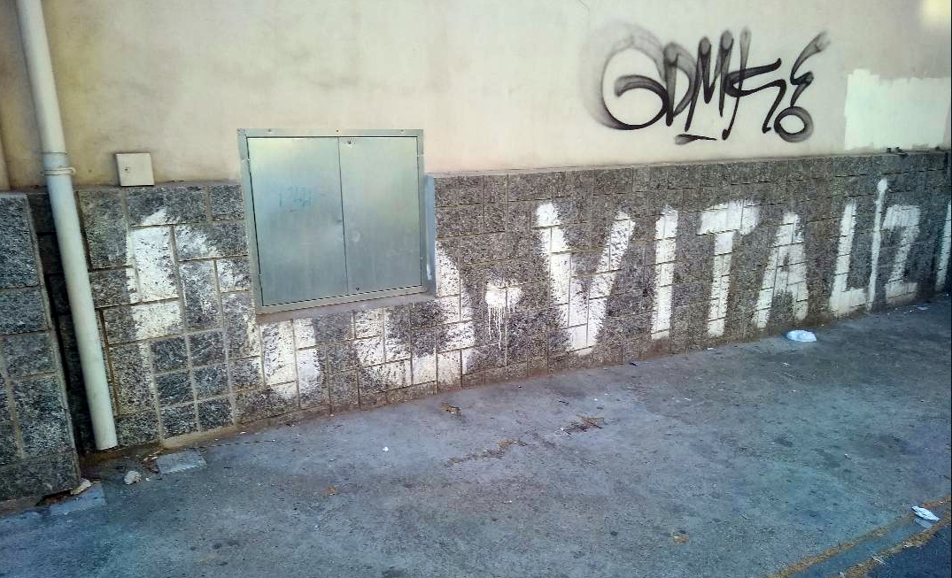 NO - VITALIZI (no Parliamentary Contributory Pensions Fund ): graffiti in Turin